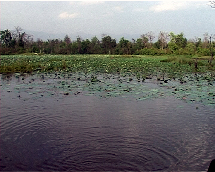 Ghodaghodi lake in Nepal